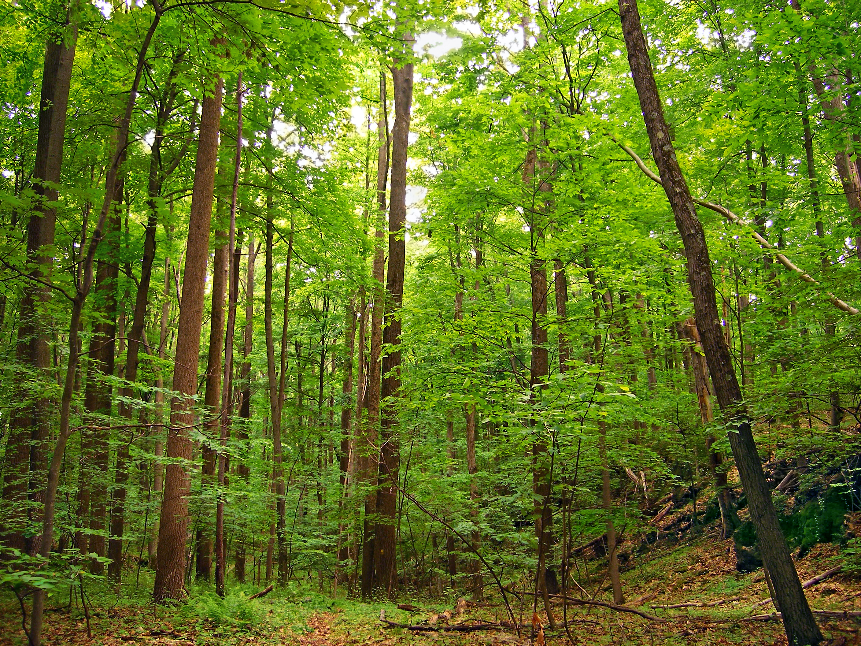 Second-growth deciduous forest, Johnsonburg Swamp Preserve, Warren County, New Jersey. Much of this forest, now fairly mature, was once farmland. The Nature Conservancy owns and manages the preserve.